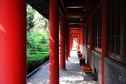 Stele Forest Museum, Xi'an. 2009